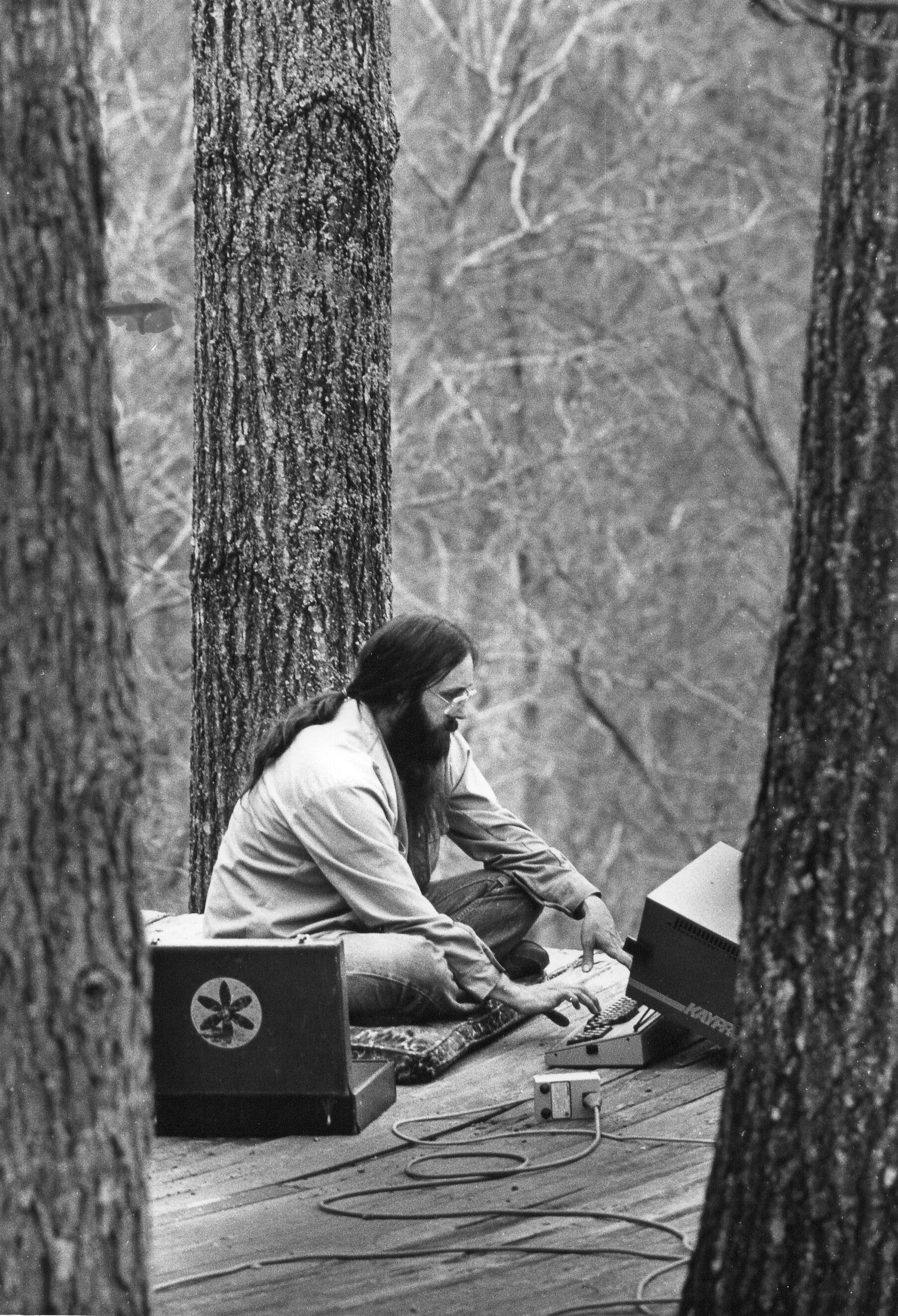 Albert K. Bates works on a Kaypro-10 computer from his home at The Farm in Summertown Tennessee in 1981. In the back deck of Laughing Creek Lodge overlooking the Cox Branch of the Swan Creek.